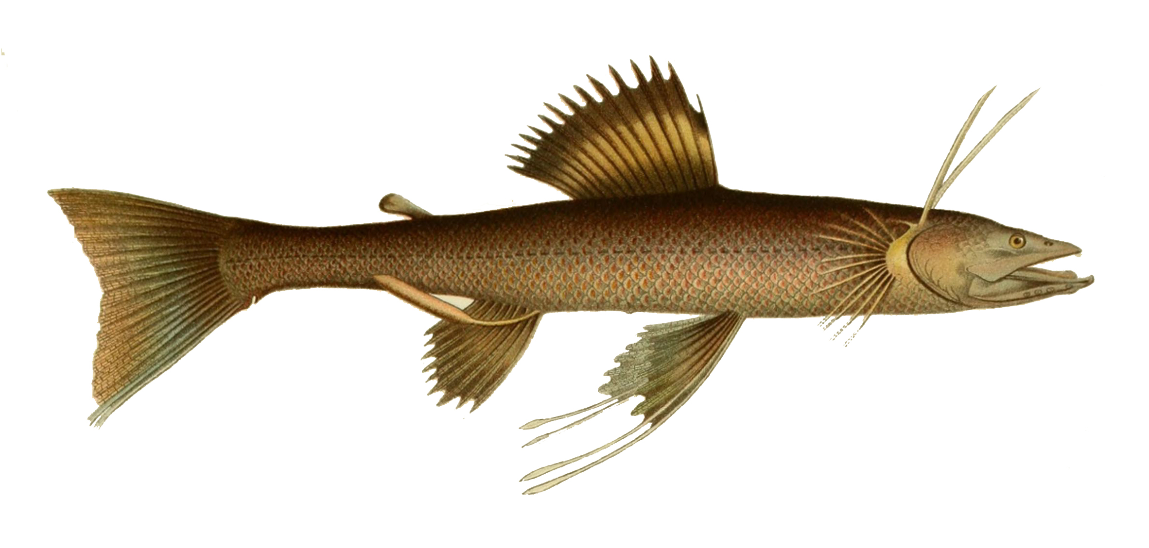 Bathypterois dubius with copepod parasite